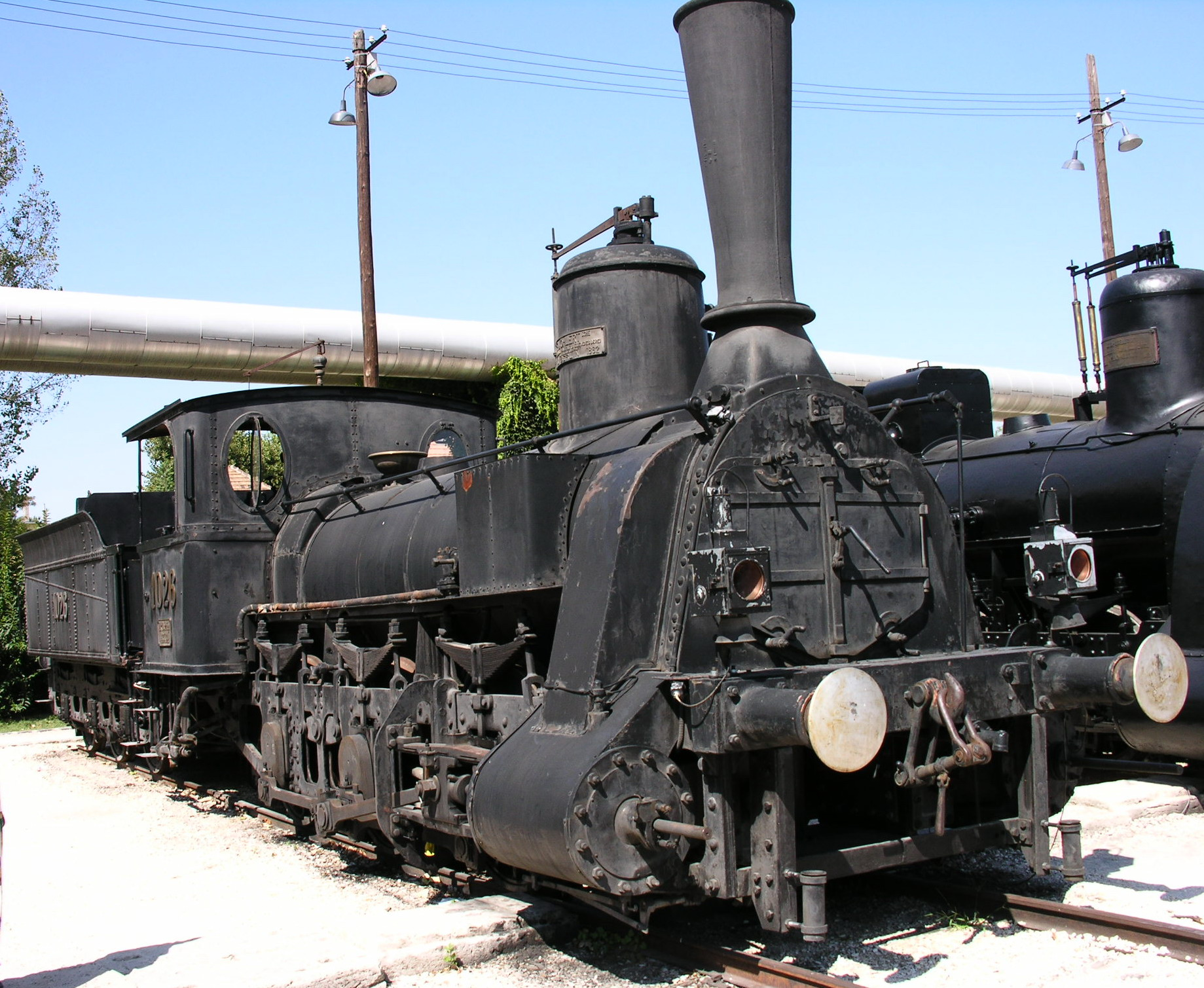 MÁV 1026 in Railway Museum "Füsti". 2007 september 19 Budapest.